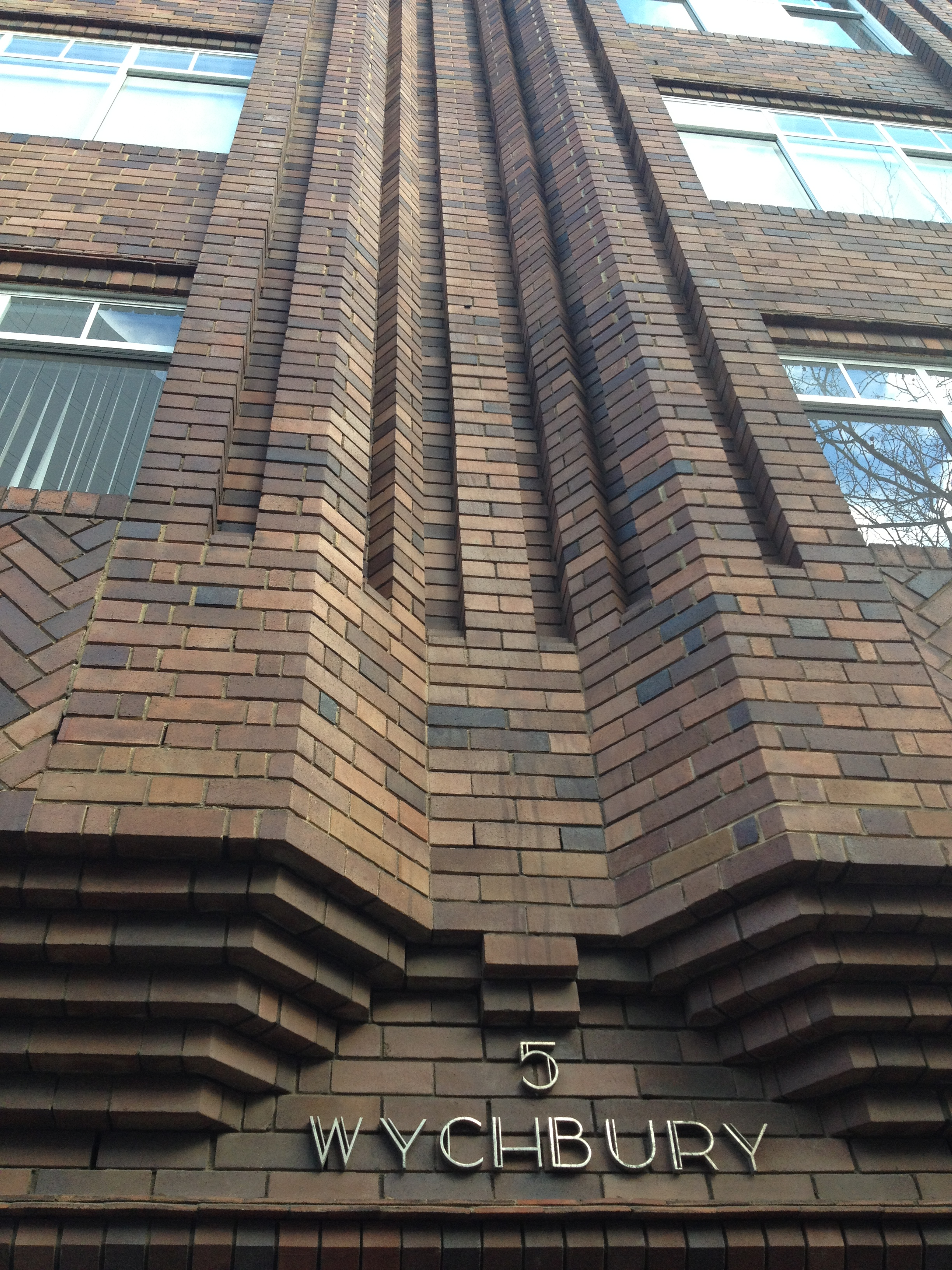 Wychbury, Manning Street, Potts Point, Sydney.